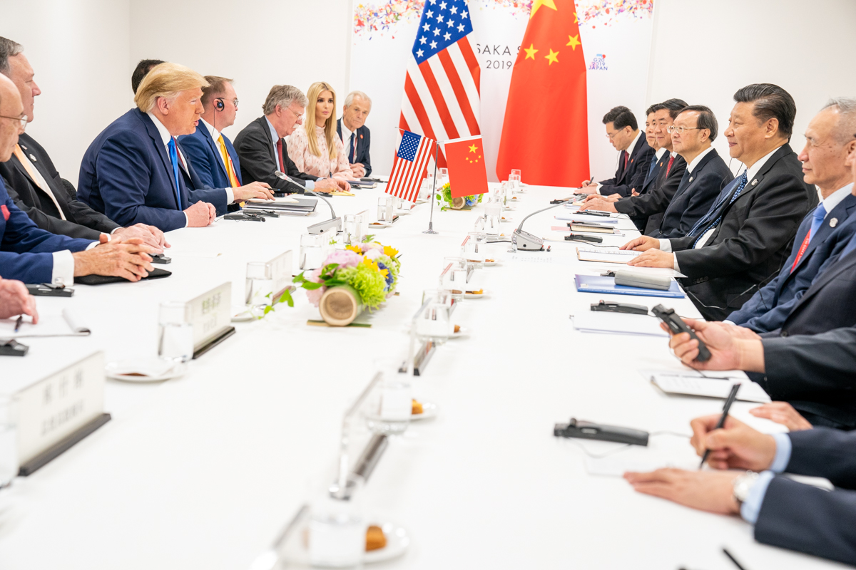 President Donald J. Trump, joined by members of his delegation, meets with Xi Jinping, President of the People’s Republic of China, at their bilateral meeting Saturday, June 29, 2019, at the G20 Japan Summit in Osaka, Japan. (Official White House Photo by Shealah Craighead)